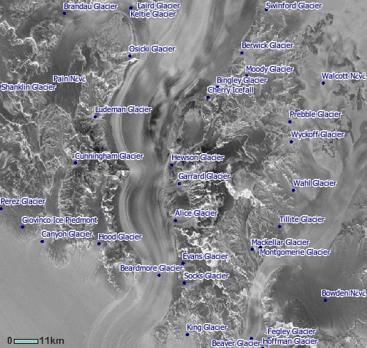 NASA Radarsat image of the Beardmore Glacier in Antarctica with glacier names